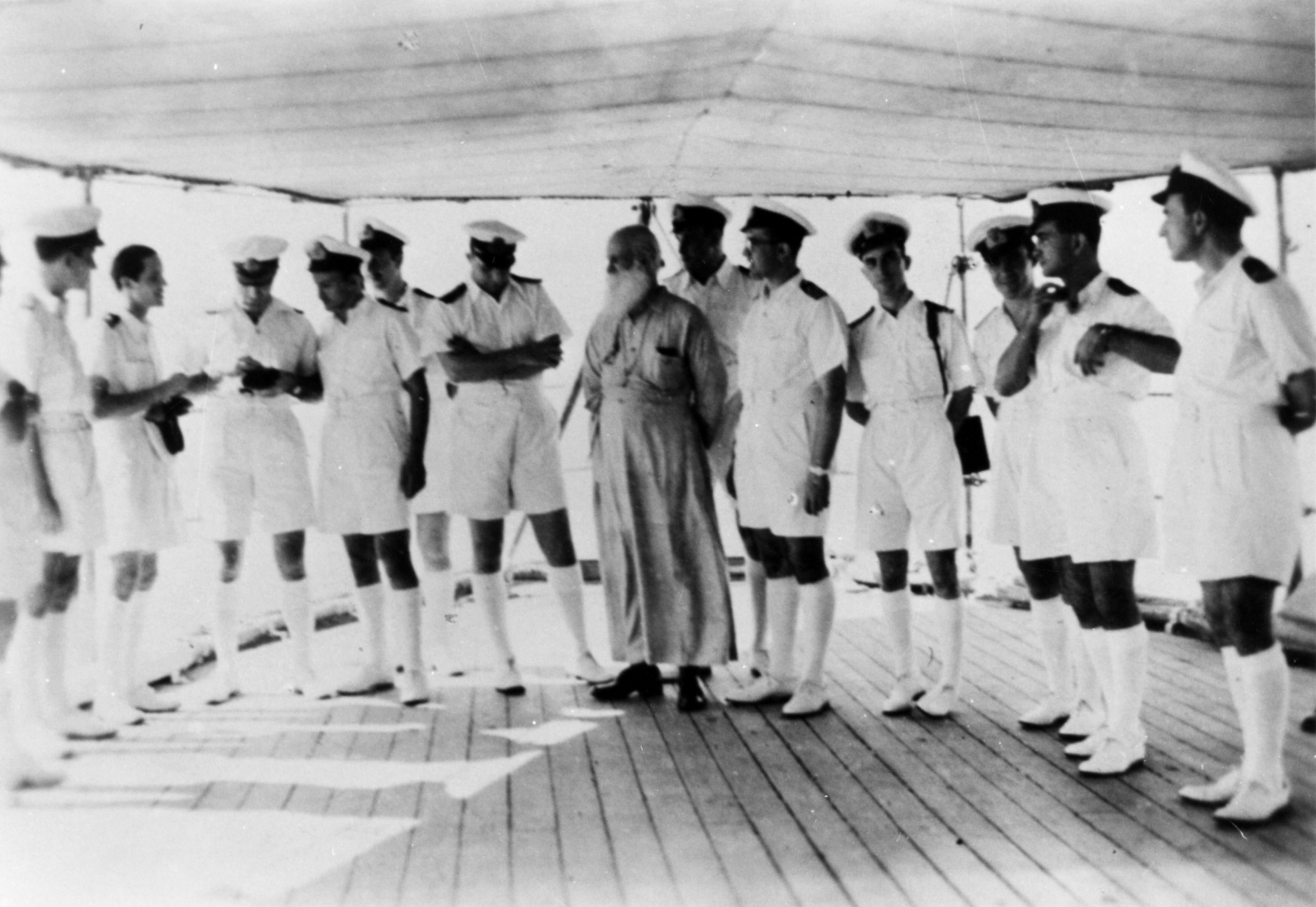 Naval priest Dionysios Papanikolopoulos with the officers on board of Greek cruiser Georgios Averof, before 1944